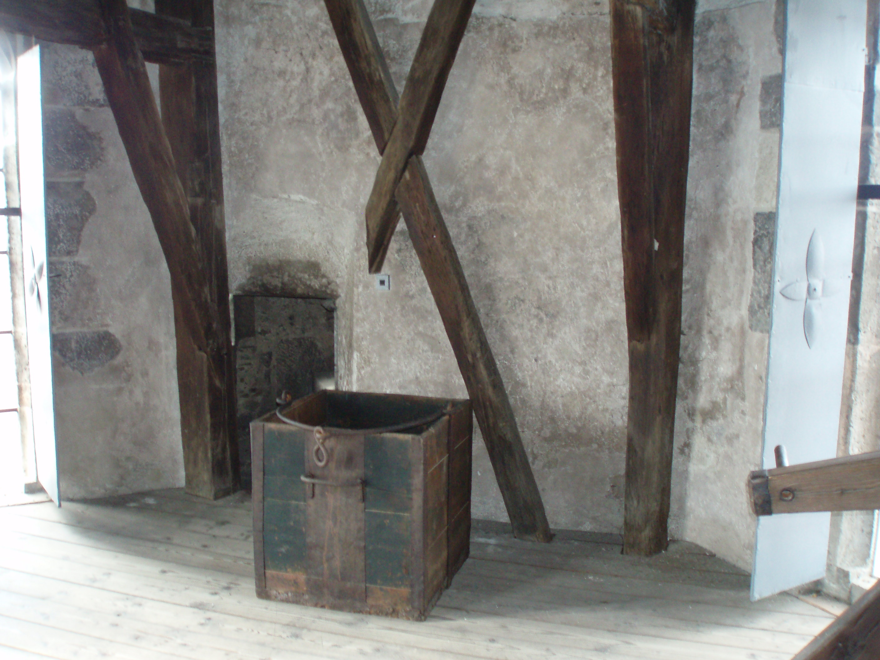 The fourh floor of Sigismund tower, St.Elisabeth, Košice